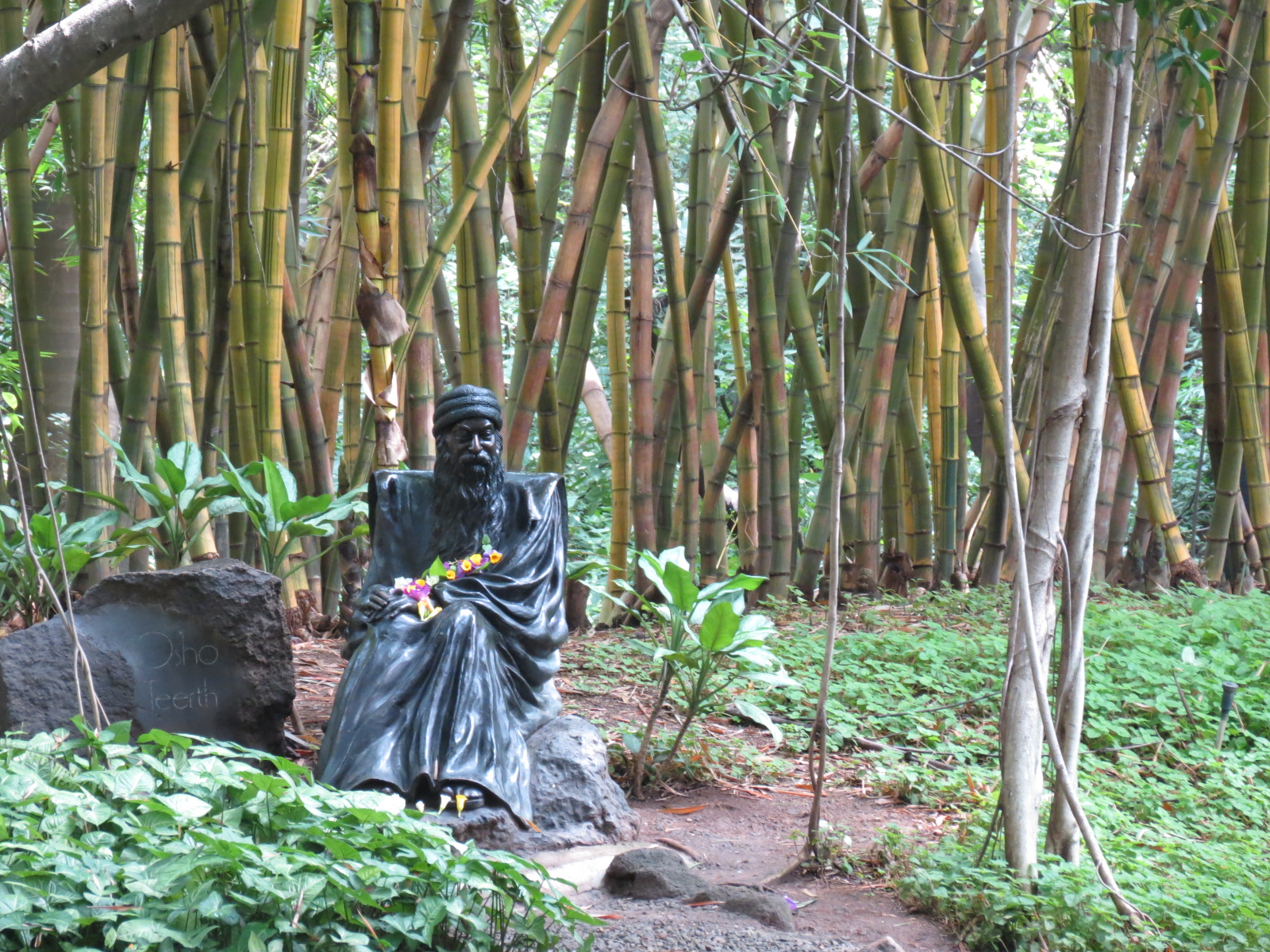 Pune OSHO Teerth Park